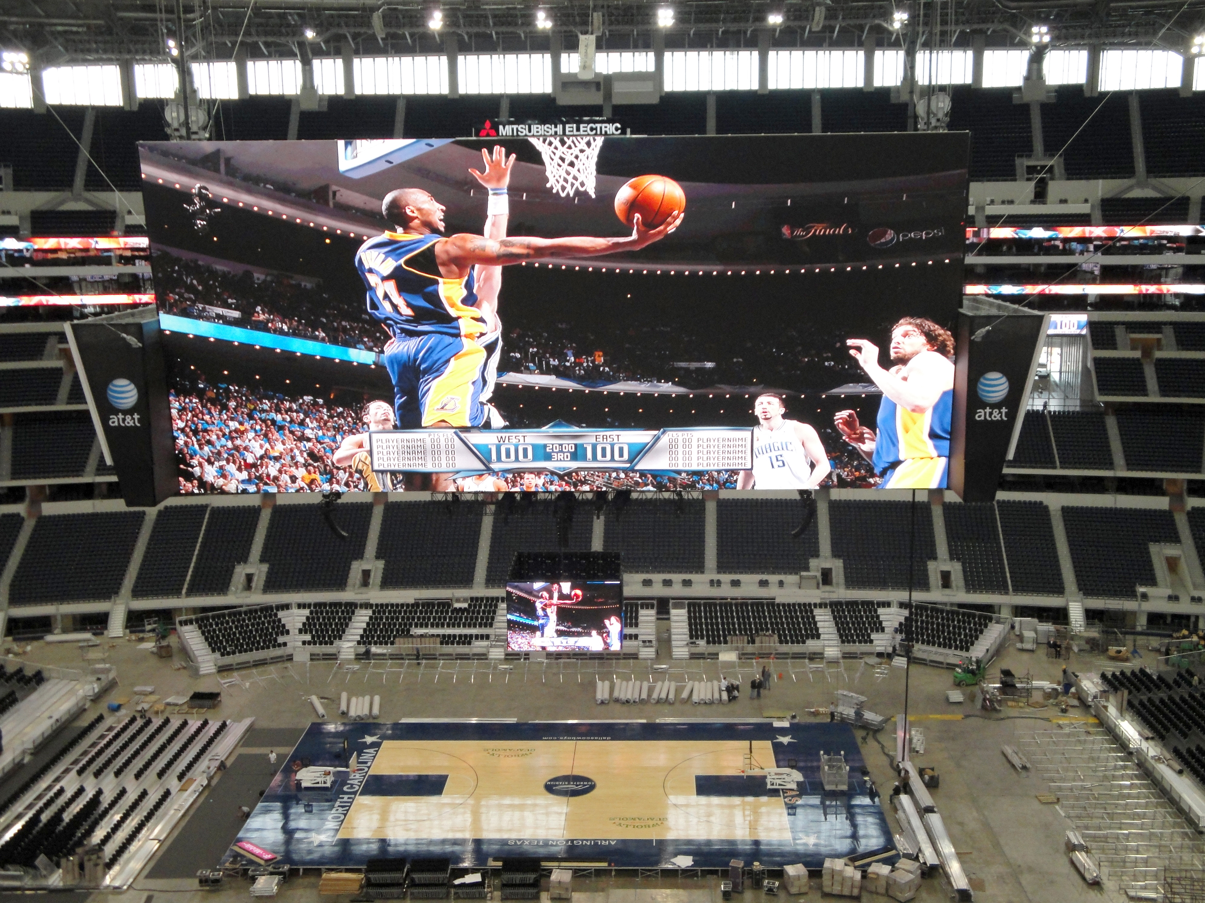 Cowboys Stadium configured for its first basketball game between North Carolina Tar Heels men's basketball and Texas Longhorns men's basketball